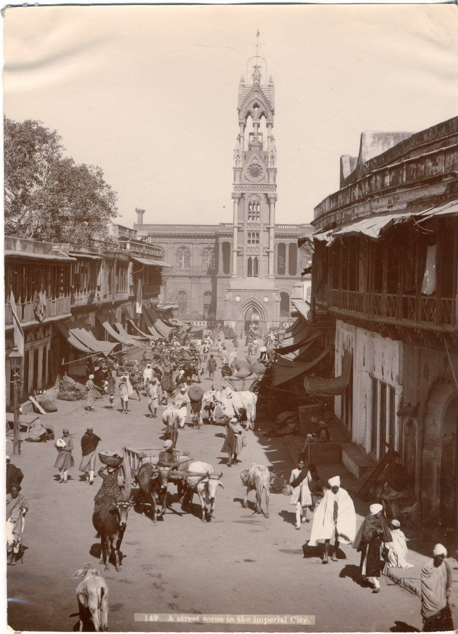 "A street scene in the imperial City," a commercial photo by Jadu Kissen, acquired by a visitor in 1910